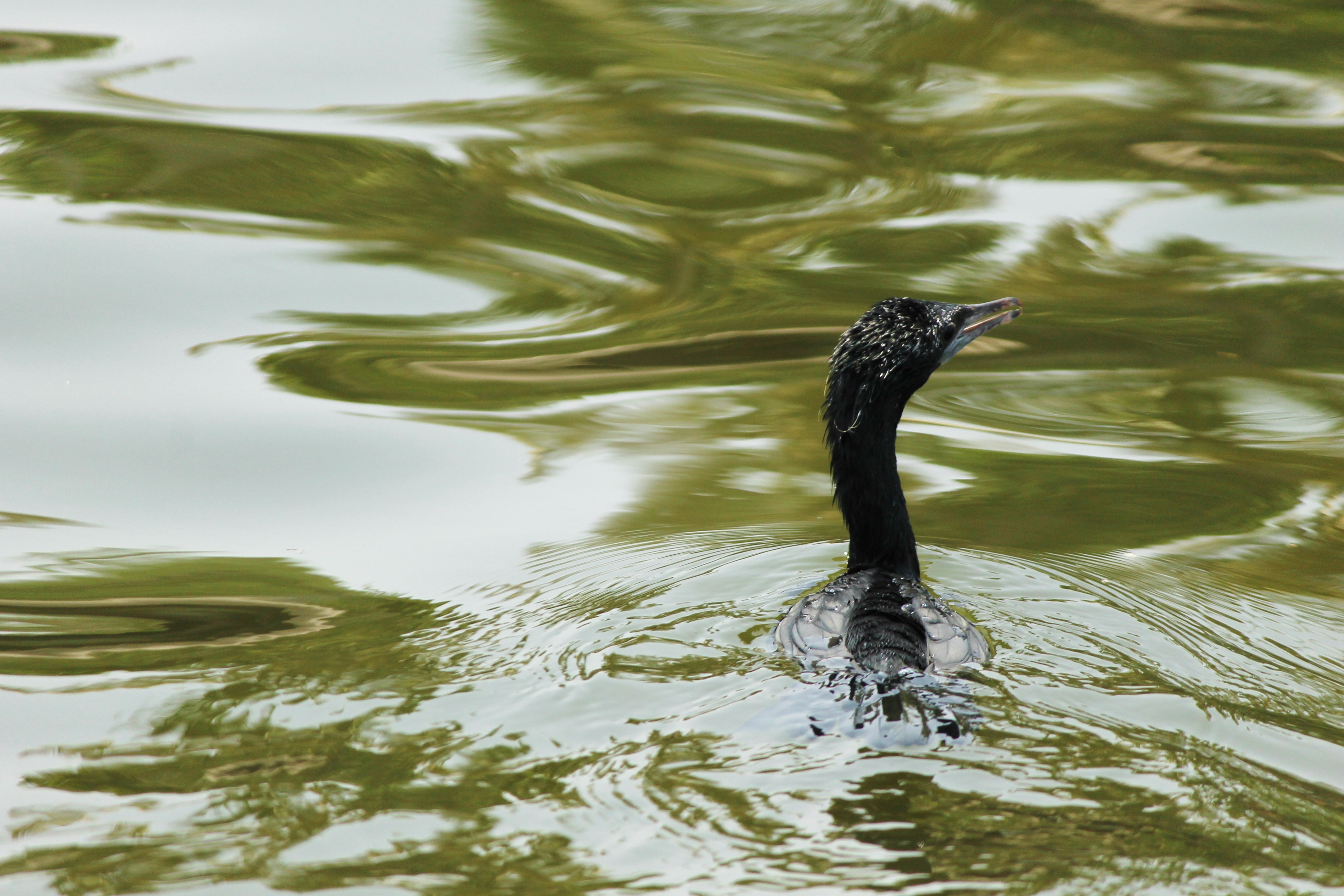 found this Little Cormorant Microcarbo niger when i was going around in the back waters of Kerala in a ferry (Backwaters, Kerala)